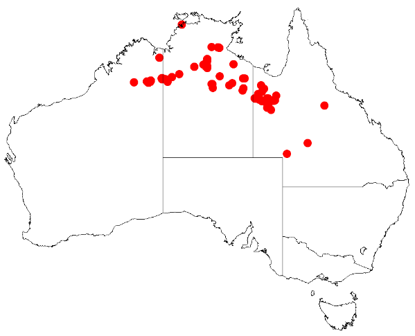 Acacia thomsonii Occurrence data from Australasia Virtual Herbarium downloaded from on 8 December 2018